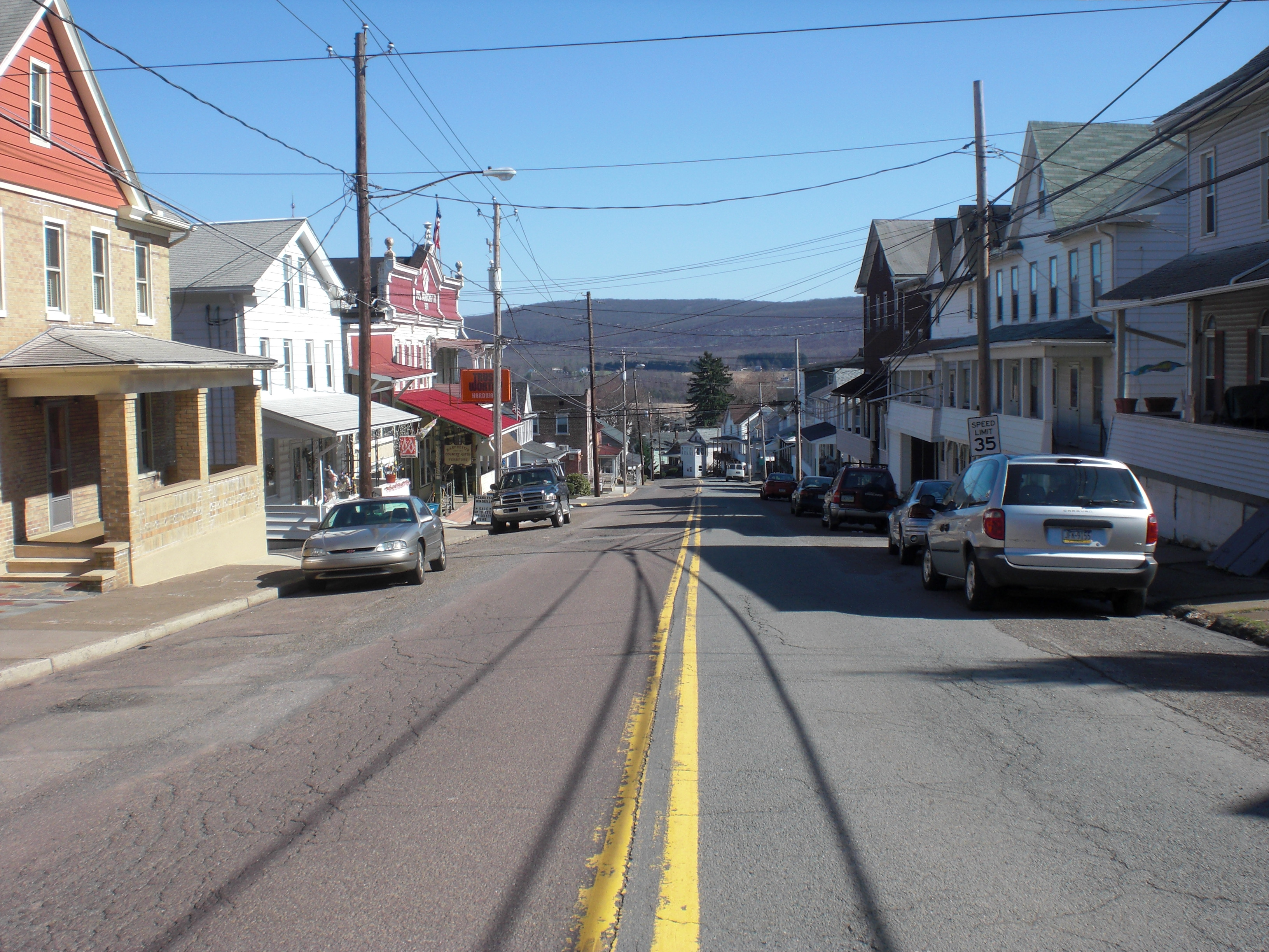 A street on the edge of Nuremberg